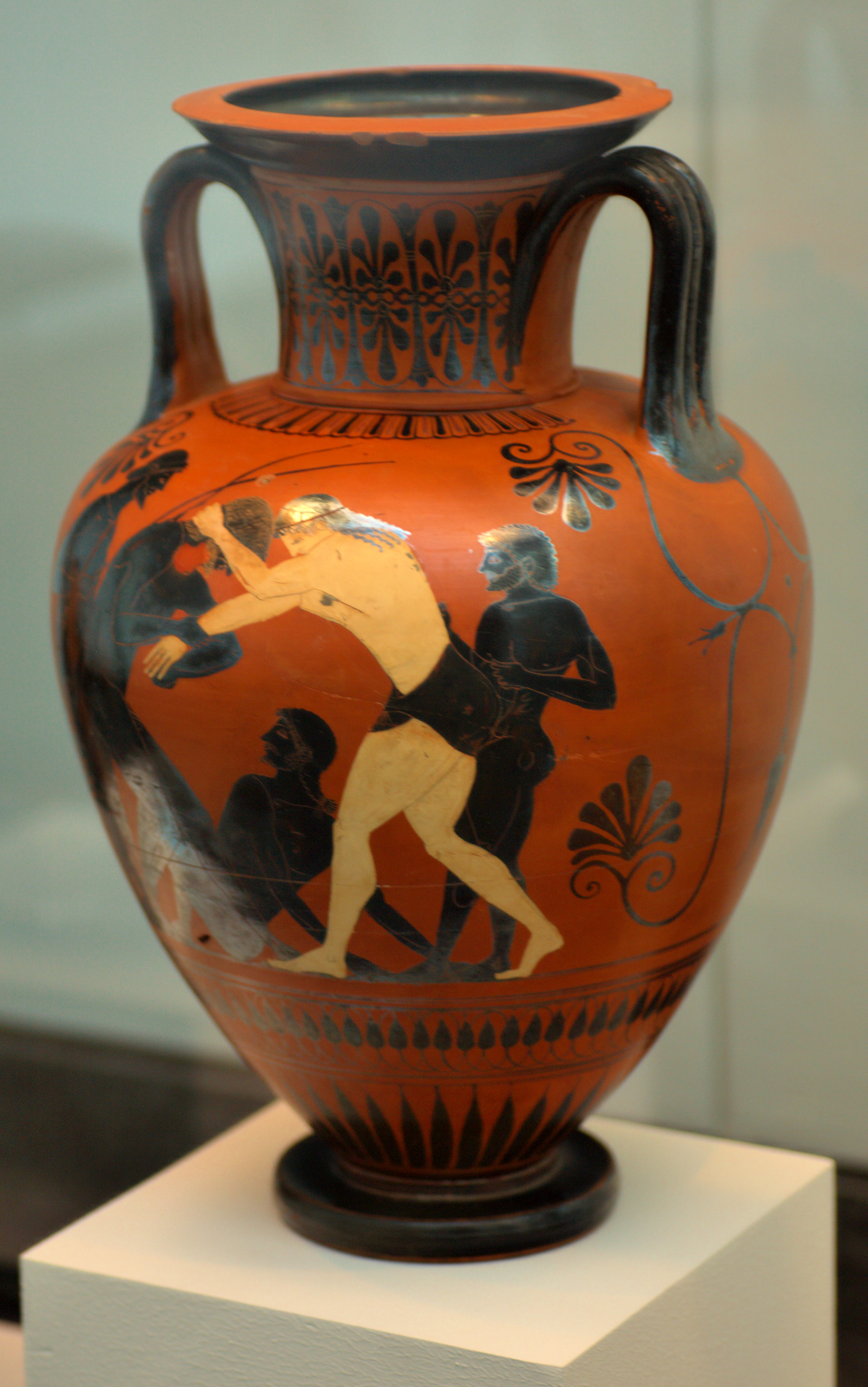 Peleus and Atalanta wrestling. Side A of an Attic black-figure neck-amphora, 500–490 BC.